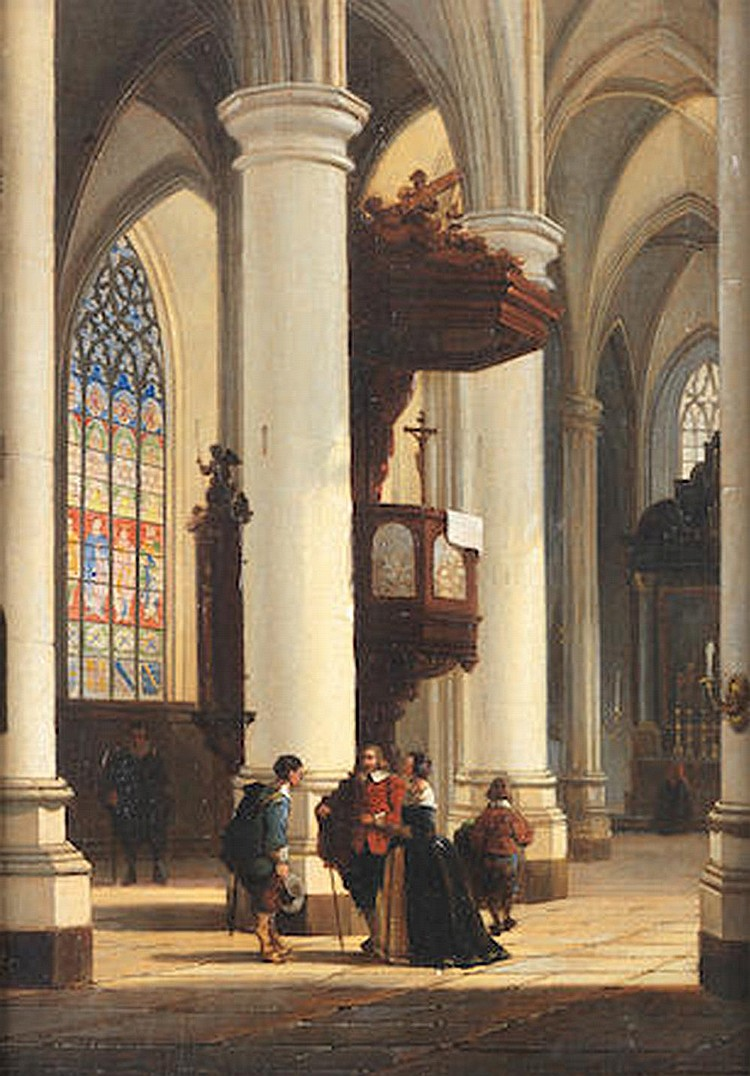 Figures in a cathedral